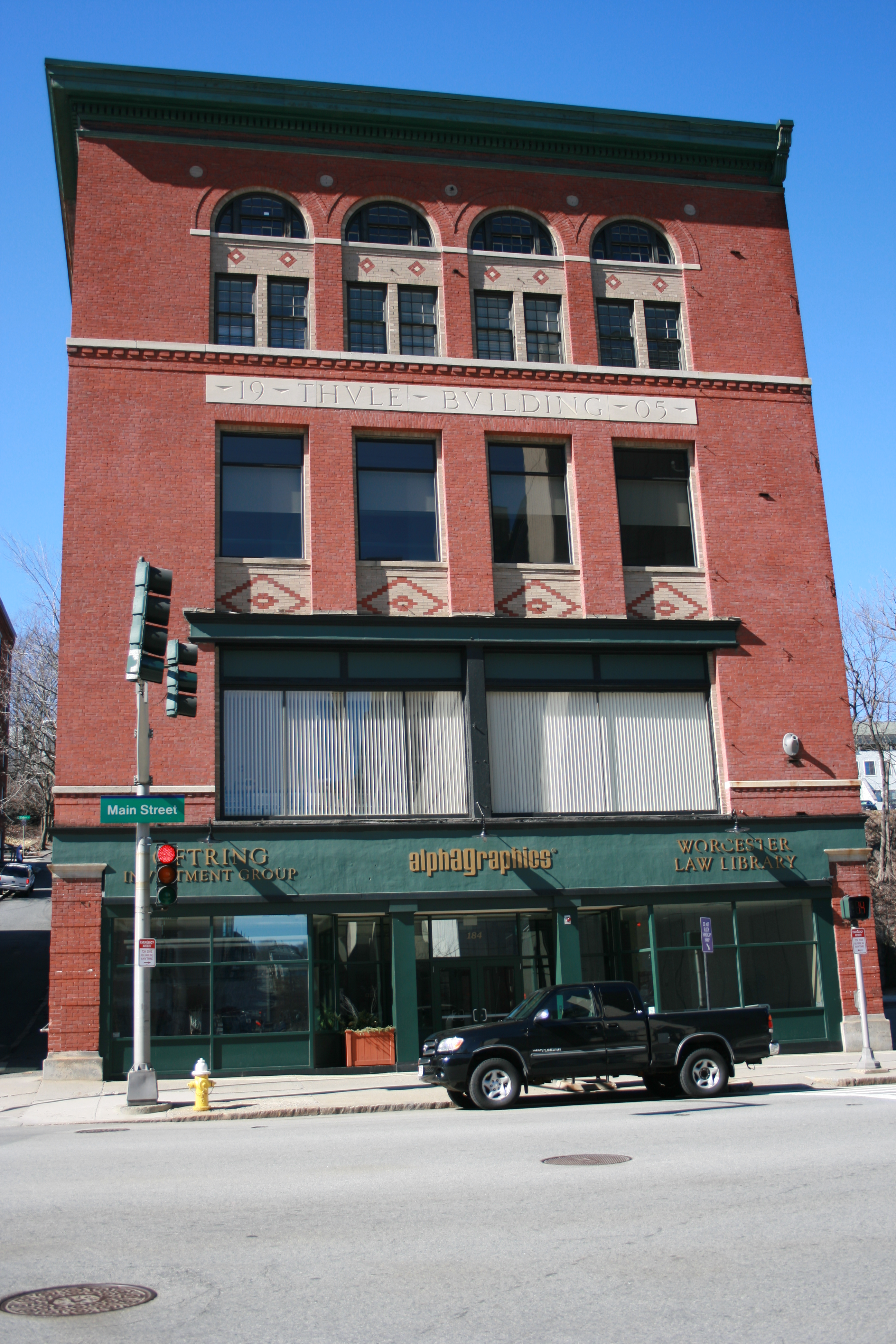 Thule-Plummer Buildings